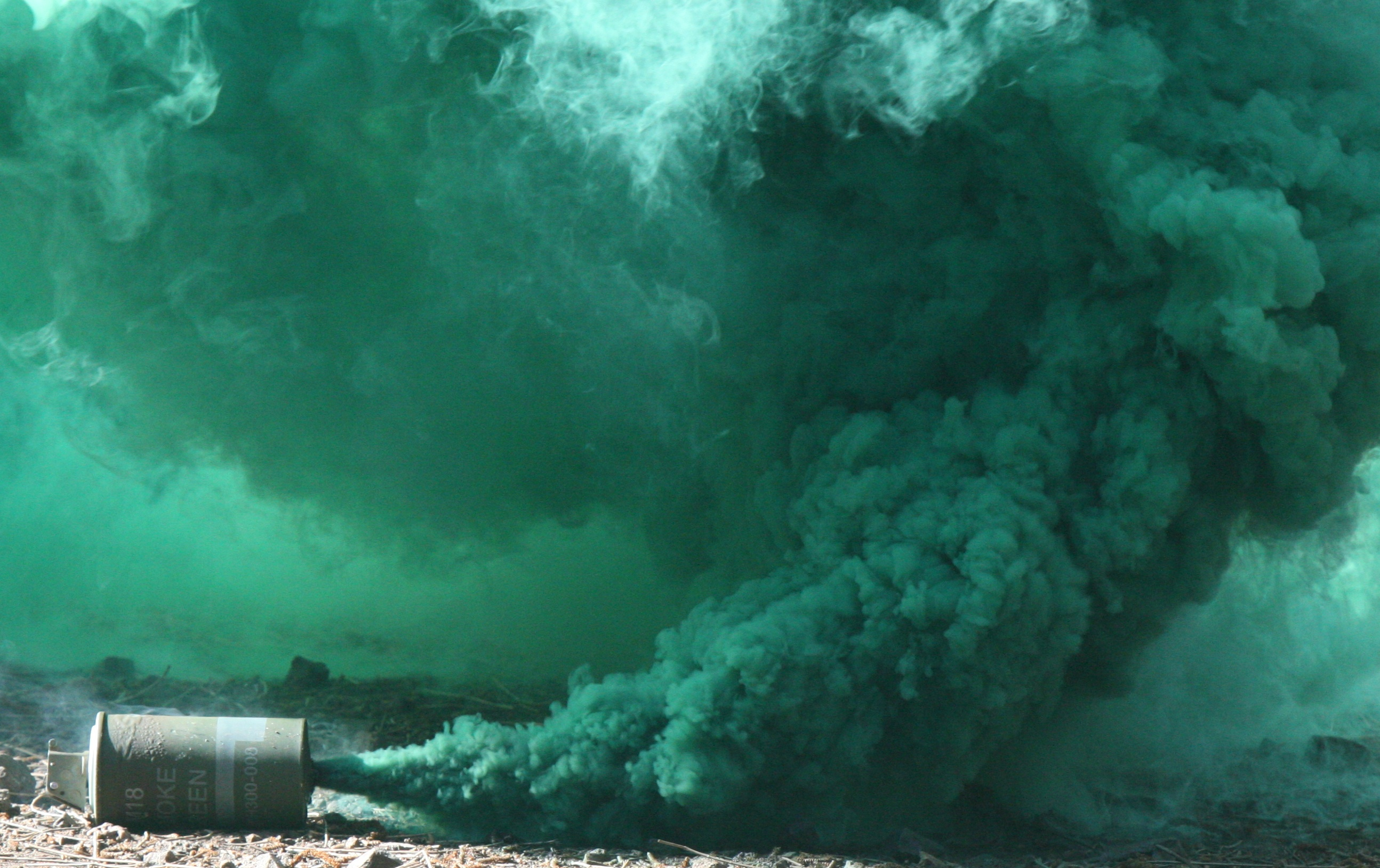 Cropped from 100520-M-9232S-012 Smoke billows from an M18 green smoke hand grenade during a U.S. Marine Corps attack and defend field exercise at Kahuku Training Area, Oahu, Hawaii, May 20, 2010. The training was part of an infantry squad leader course by the School of Infantry-West, Advanced Infantry Training Battalion. (U.S. Marine Corps photo by Lance Cpl. Jody Lee Smith/Released)